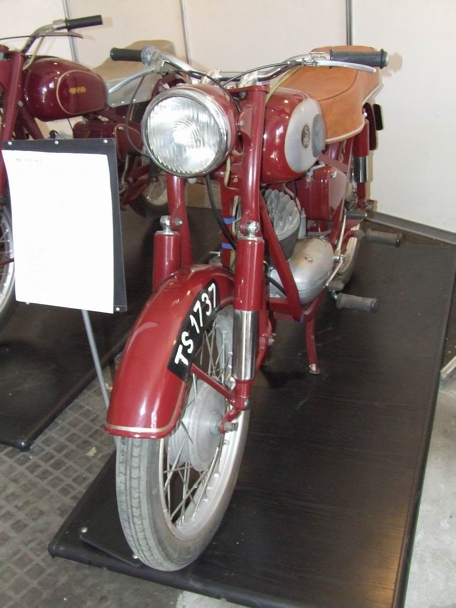 Polish SHL 150M - 06T motorcycle, 1957-1962